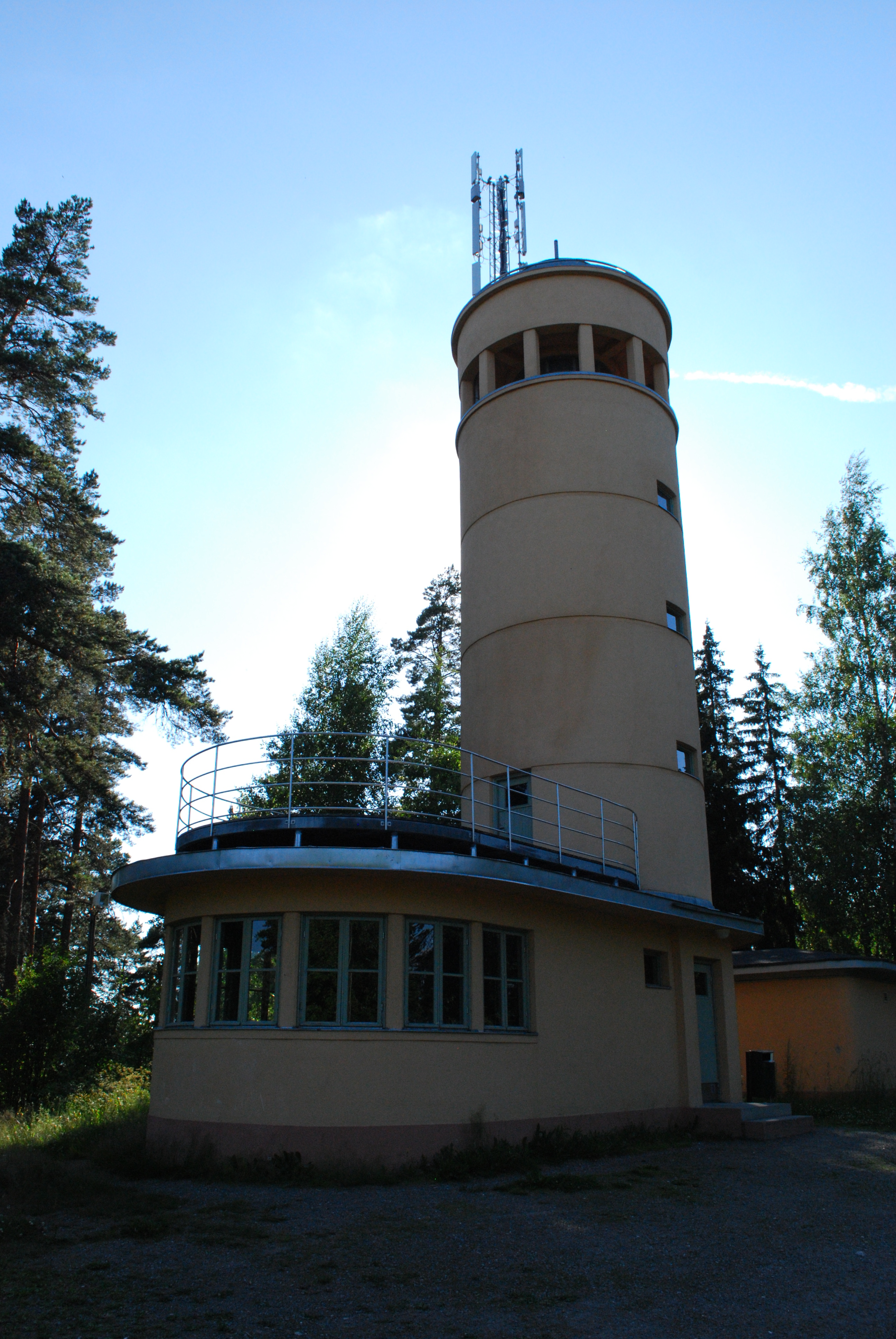 Kirkkoharju observation tower